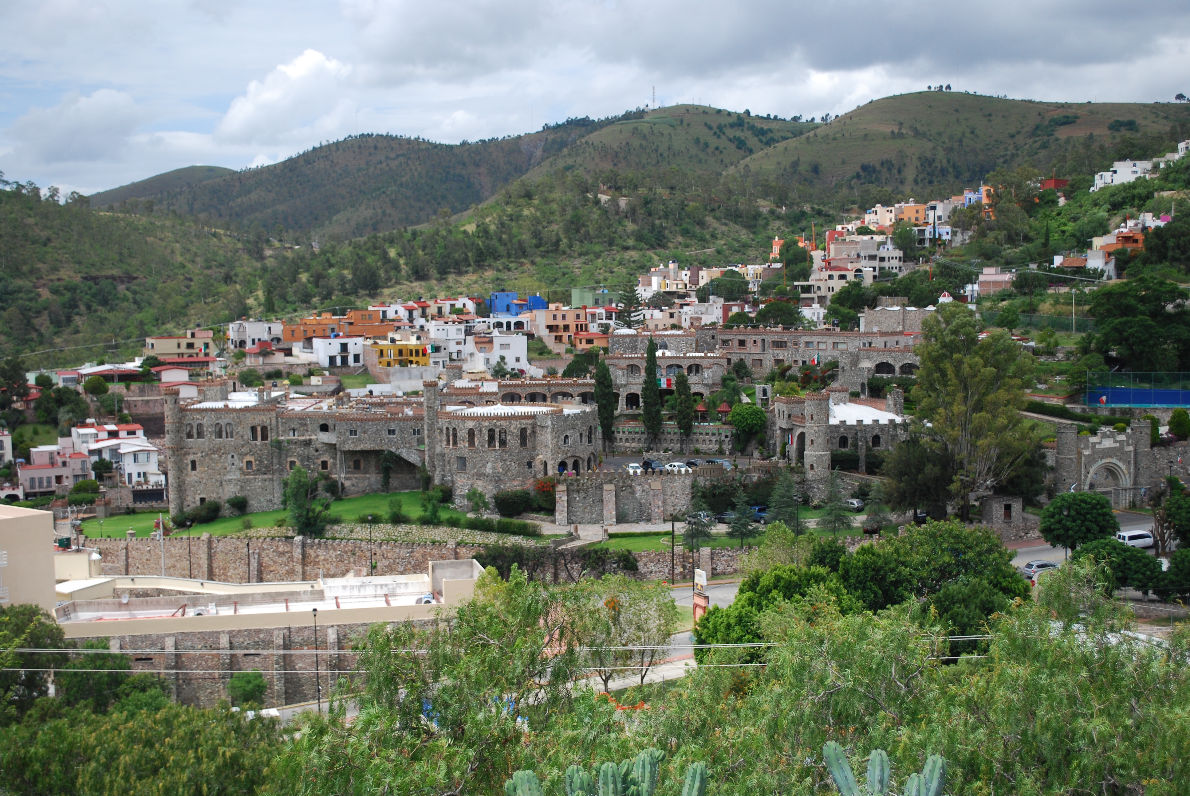 Castilla de Santa Cecelia in Guanajuato, Mexico